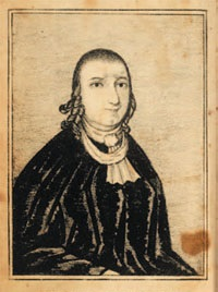 Portrait of Public Universal Friend